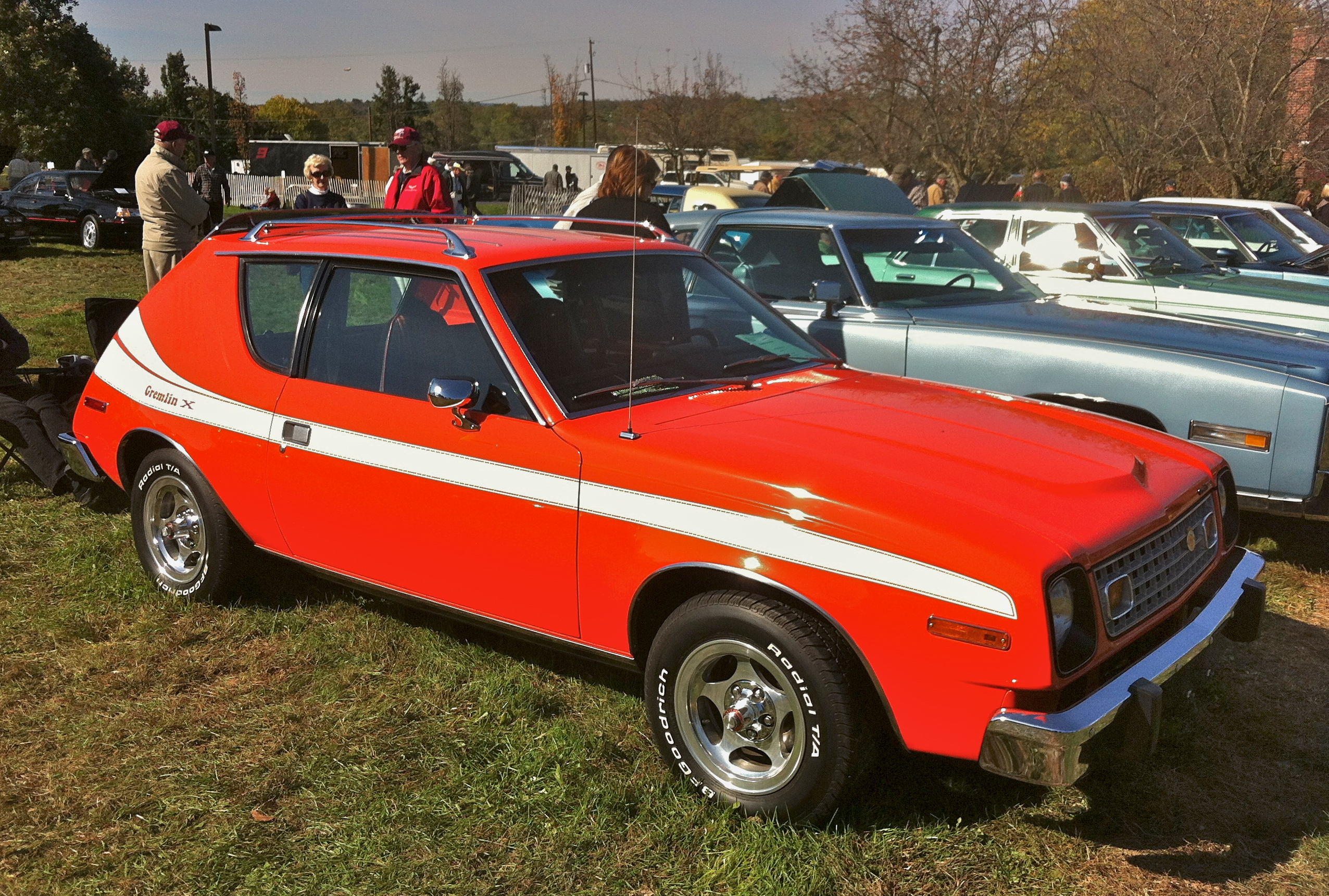 1977 AMC Gremlin X model, a subcompact automobile made by the American Motors Corporation. Picture taken on the show field of the Antique Automobile Club of America (AACA) 2012 Hershey meet that is held every October in Pennsylvania. This one has the 258 six and a manual transmission.